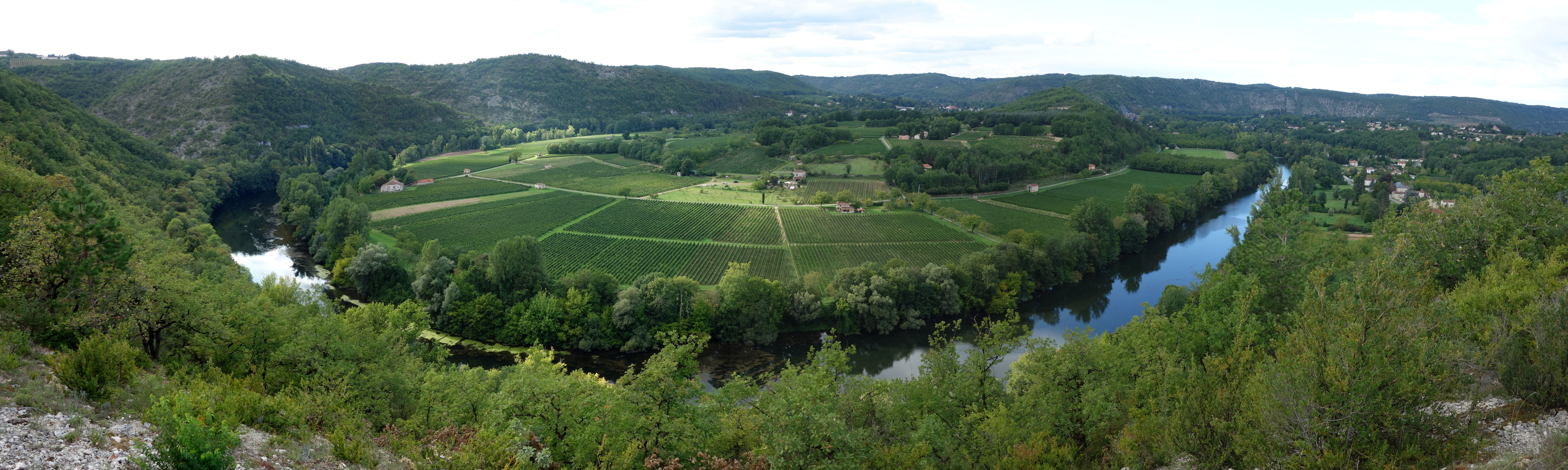 Panorama of the river Lot from St Vincent Rive d'Olt near Cahors...